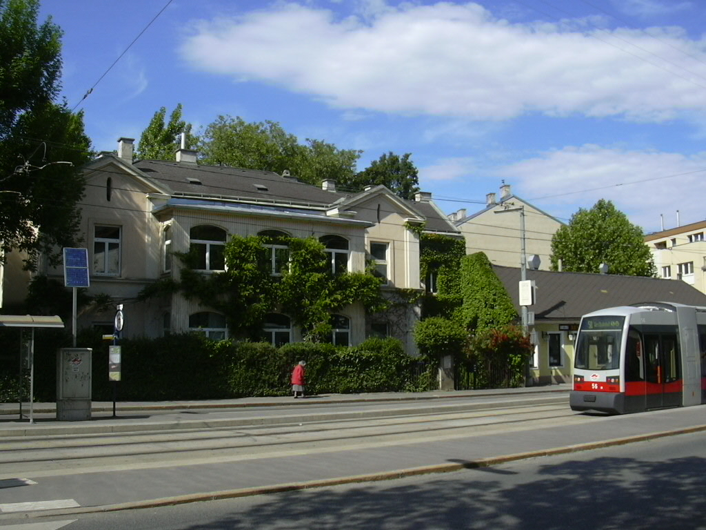 Former Unter-St.-Veit station of the steam tram connecting the villages of Hietzing and Ober-St.-Veit in the late 19th century, the area being part of the City of Vienna since 1890. The station was next to the stream tram's crossing with Verbindungsbahn, the railway connecting West and South railways in the suburbs of Vienna, and its St. Veit an der Wien station.